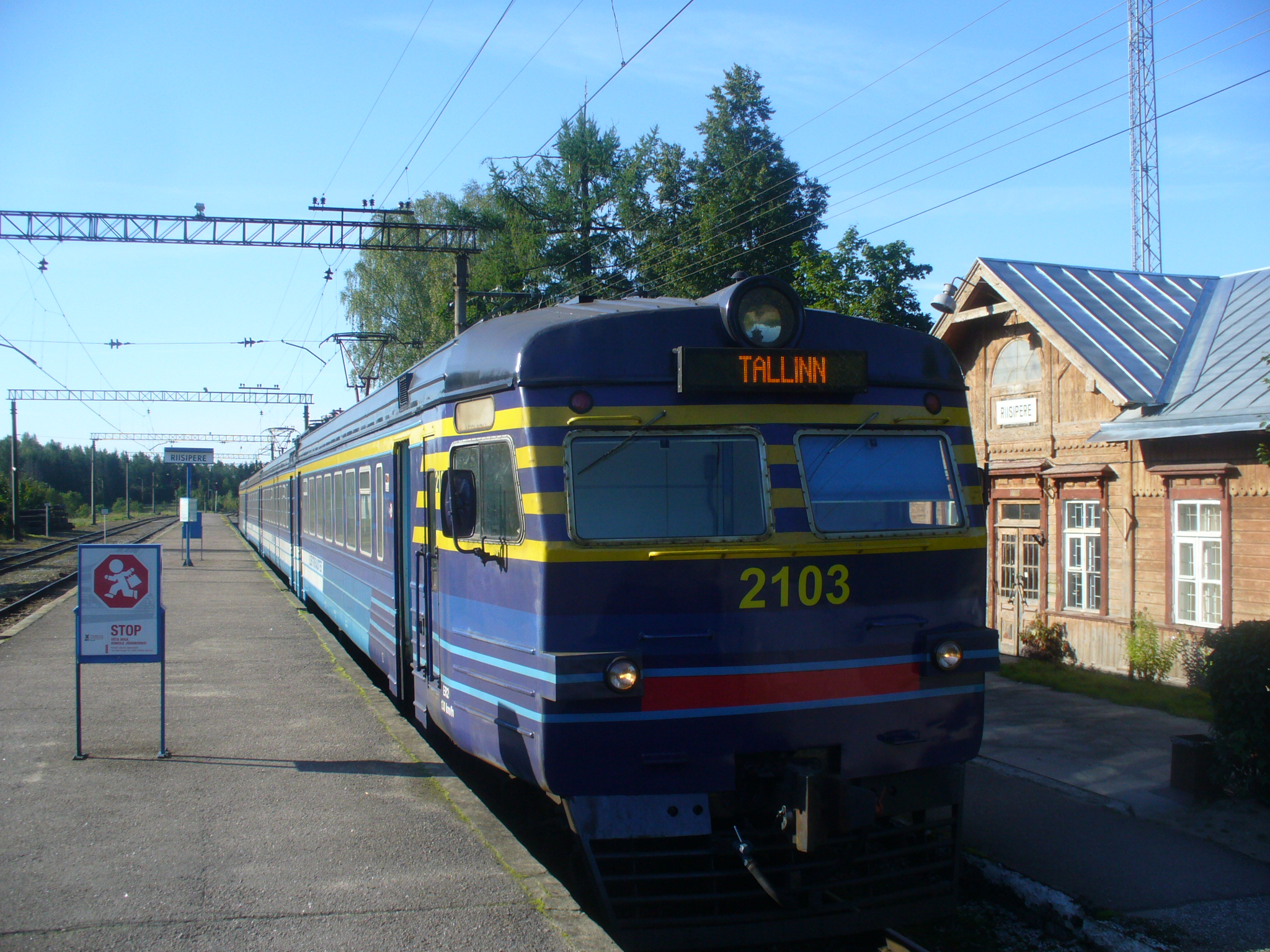 A train to Tallinn in Riisipere station. Nissi parish, Harju county, Estonia.